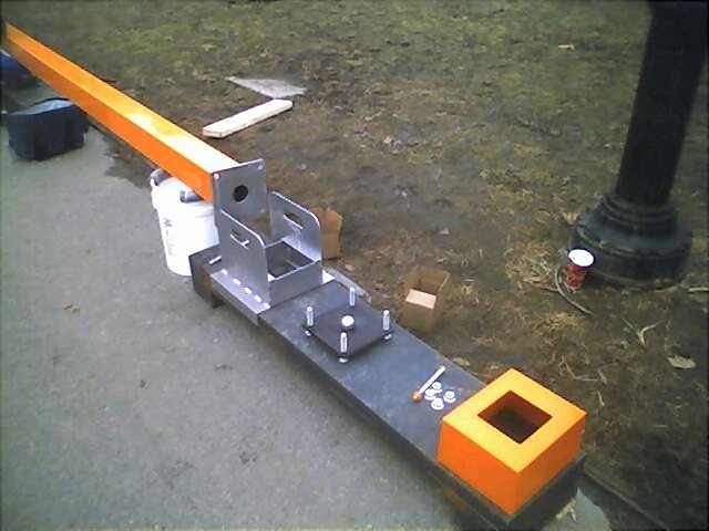 "The Gates" while under construction. This picture depicts one side of one gate which is about to be put up.